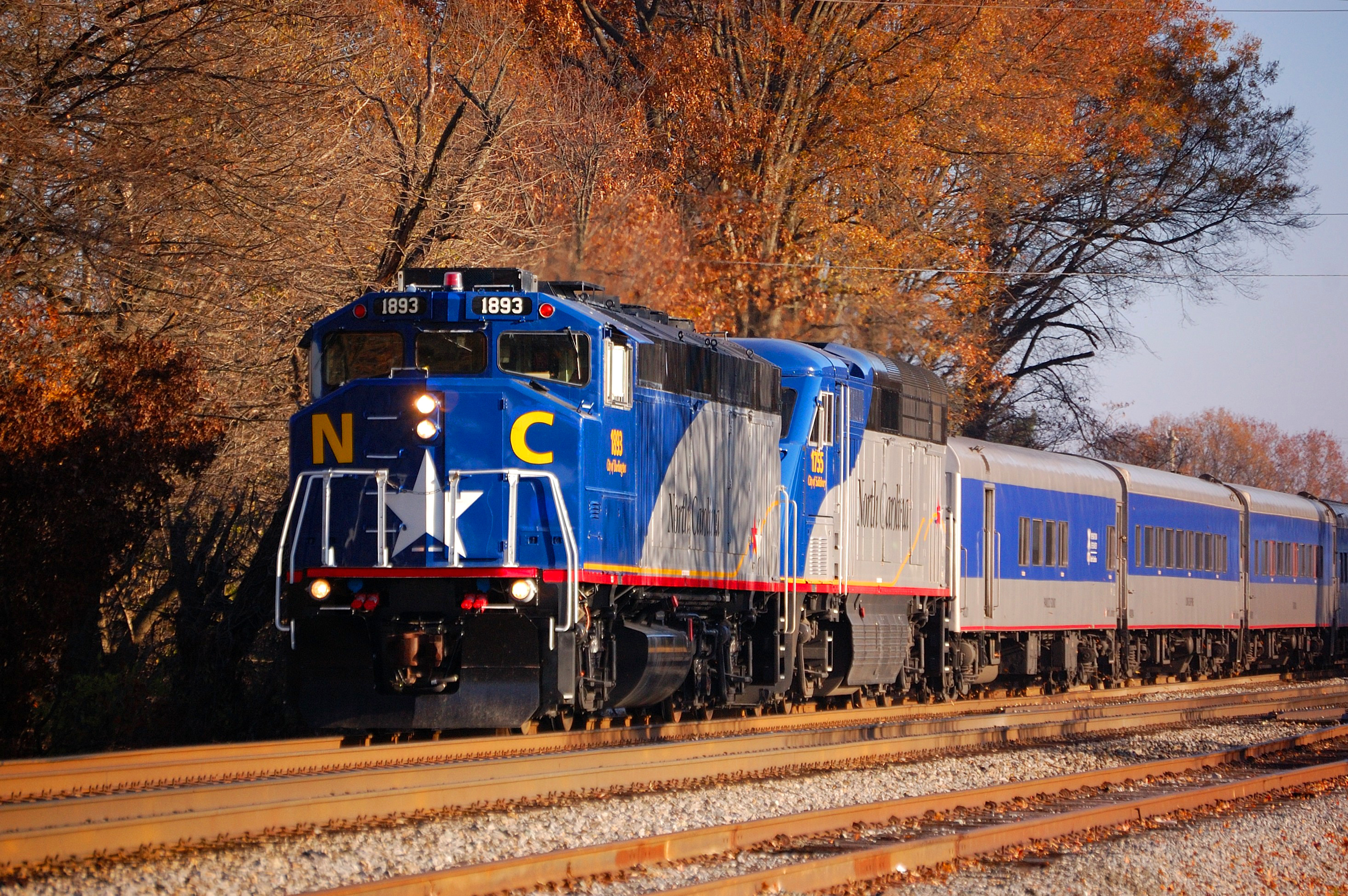 The Piedmont heads south through High Point, NC.